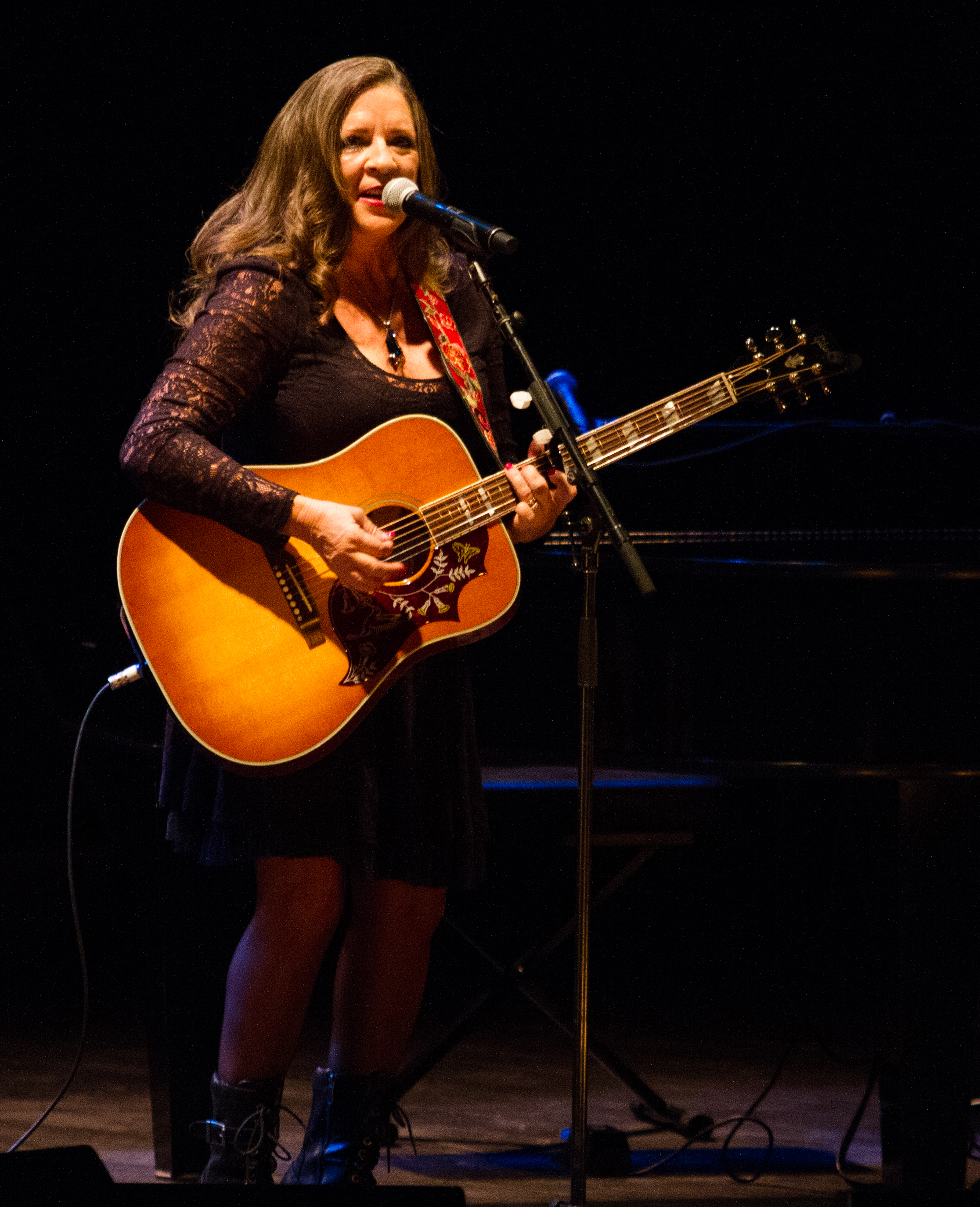 Country singer songwriter Carlene Carter opens for John Mellencamp, Oct. 30 in Stephens Auditorium.